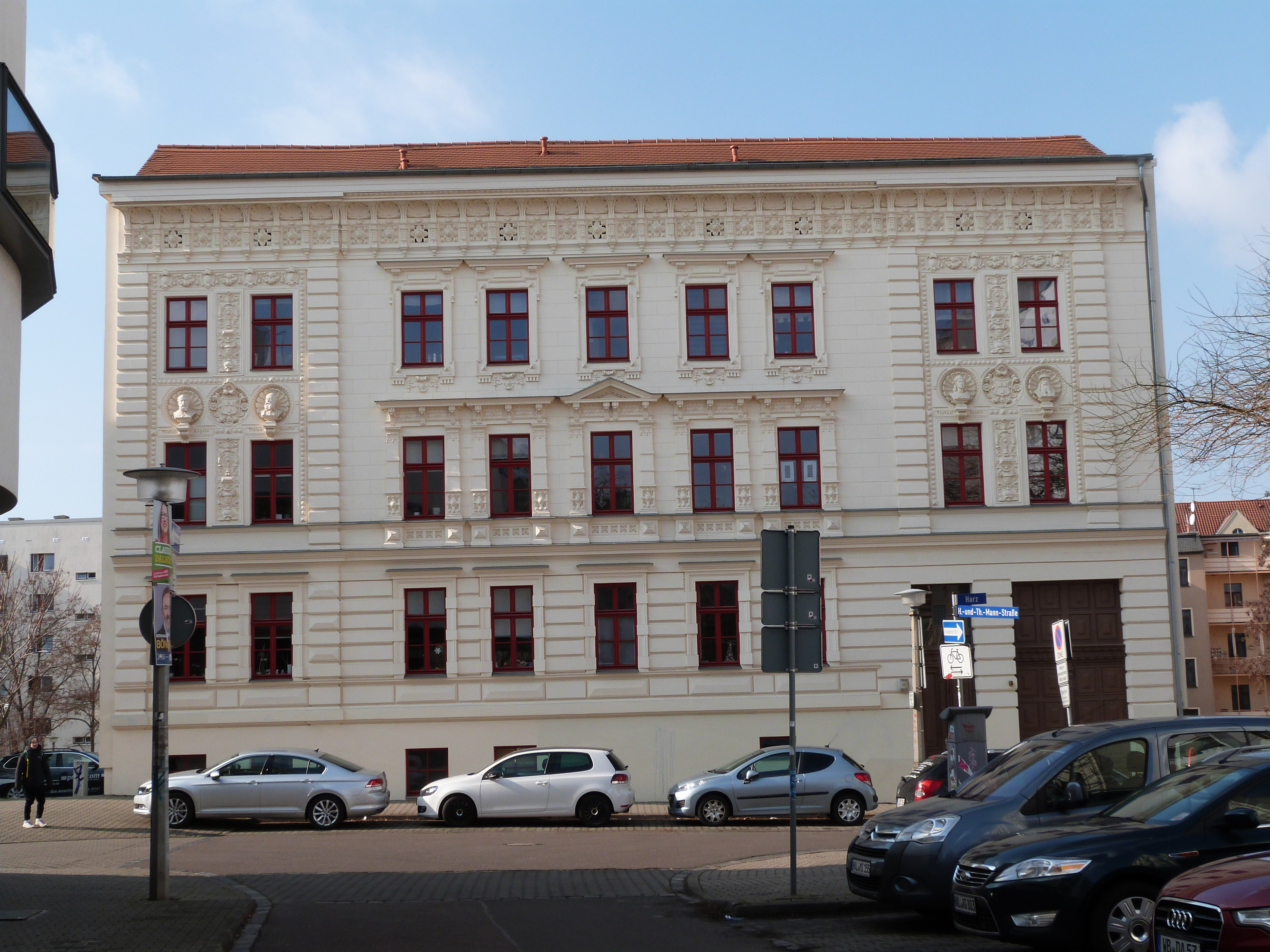 House No. 11 in the street Harz in Halle (Saale)